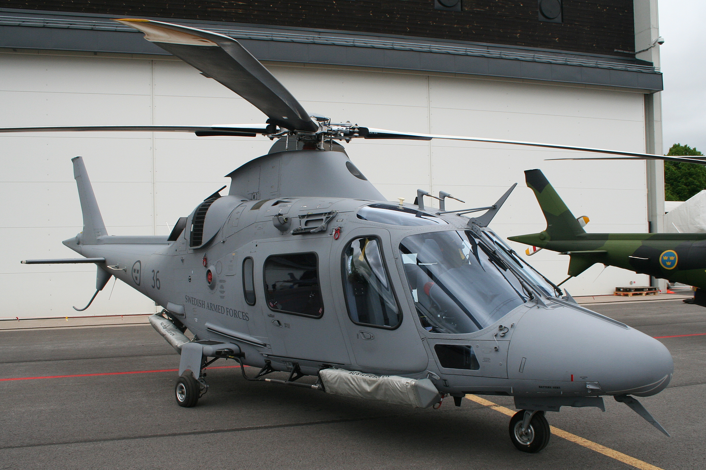 The 'B' variant is intended for ship based operations, hence the grey colour scheme. Operated by 2Hkpskv of the Swedish Armed Forces and based at Malmen. The full serial '15036' is not carried externally. msn 13766. On static display at the 2012 Malmen Airshow. Malmen, Sweden. 03-06-2012